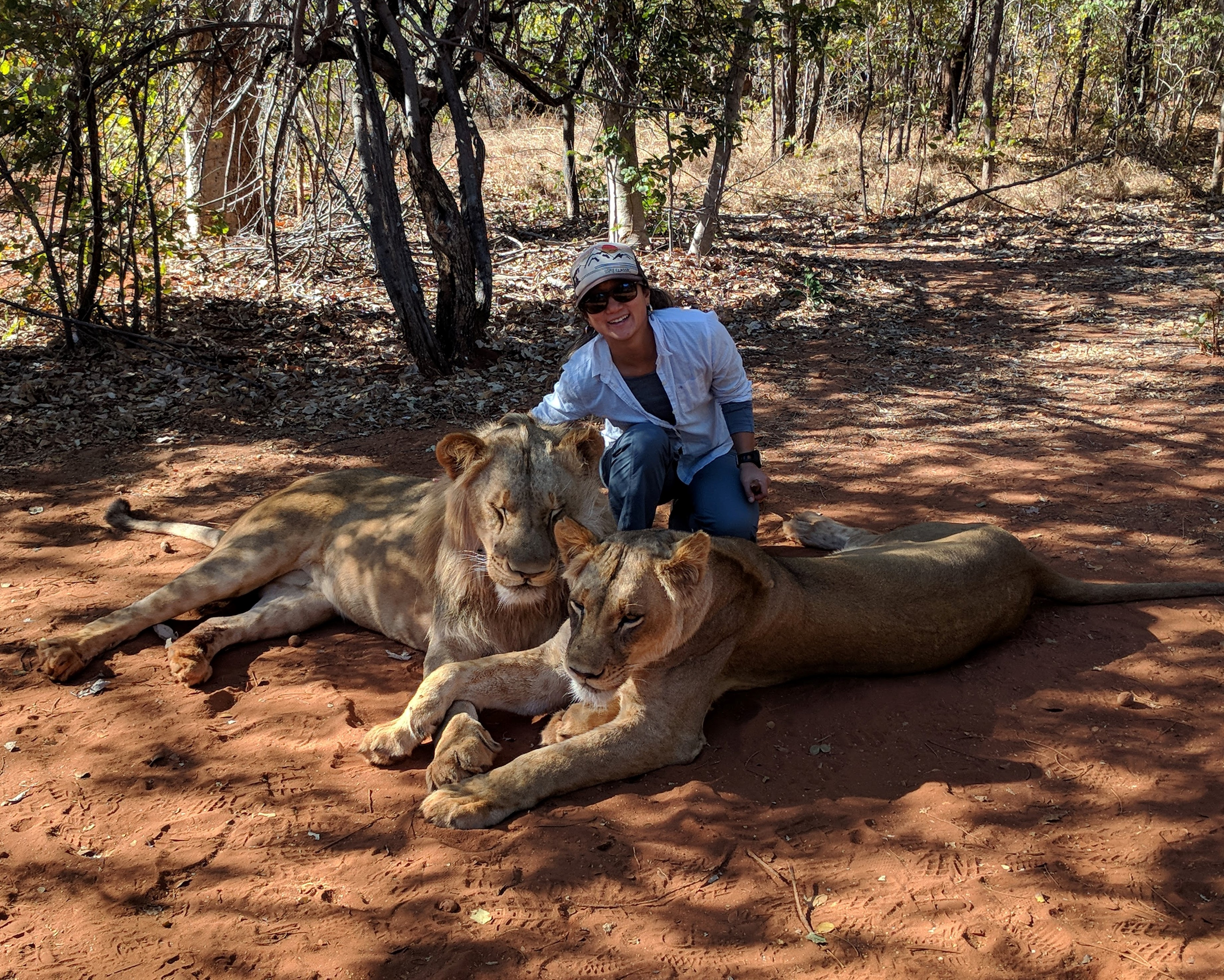 Petting lions as part of a Mukuni Big 5 Safaris in Livingstone, Zambia